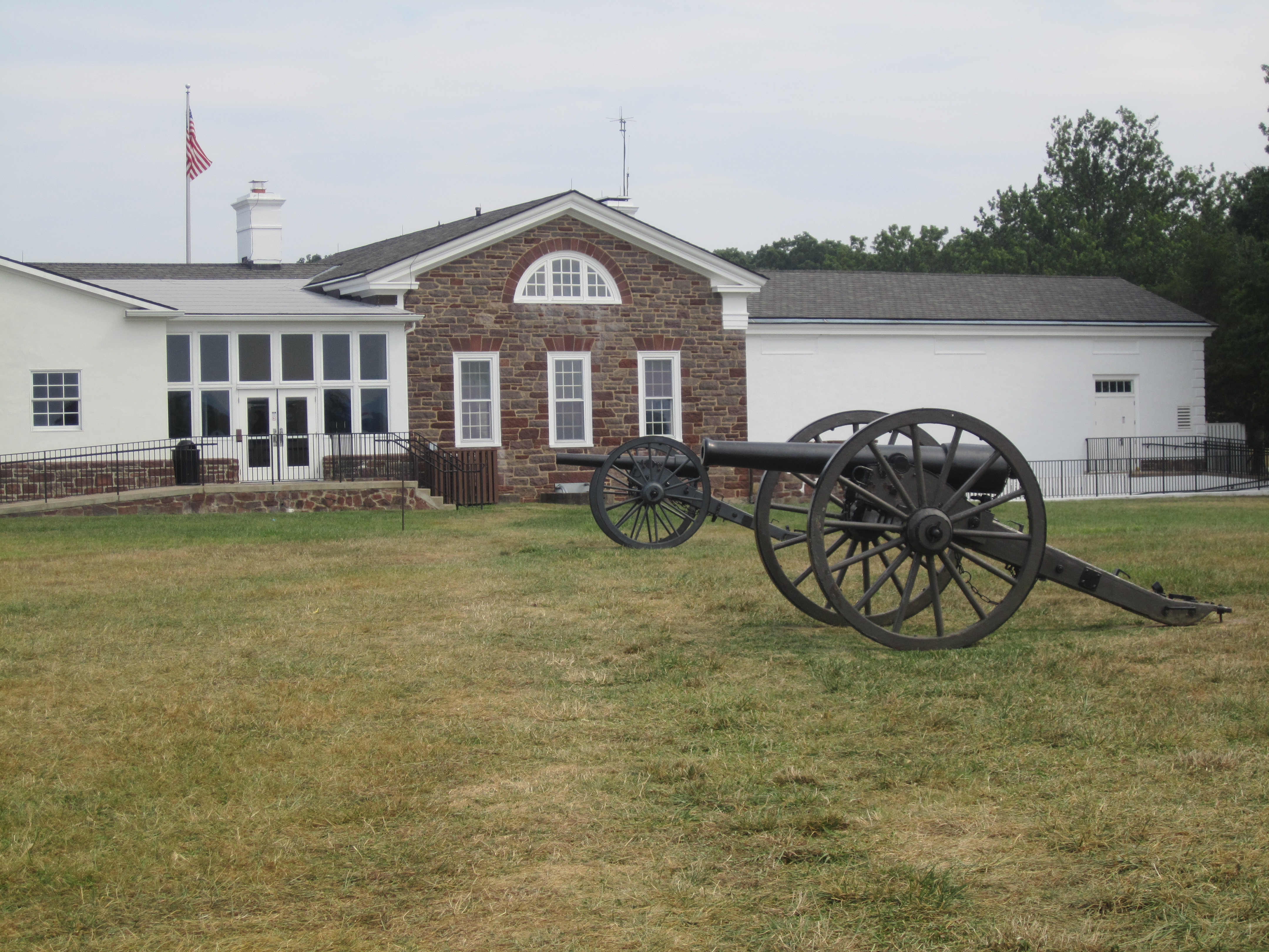 I took photo with Canon camera at Manassas Battlefield in Manassas, VA.